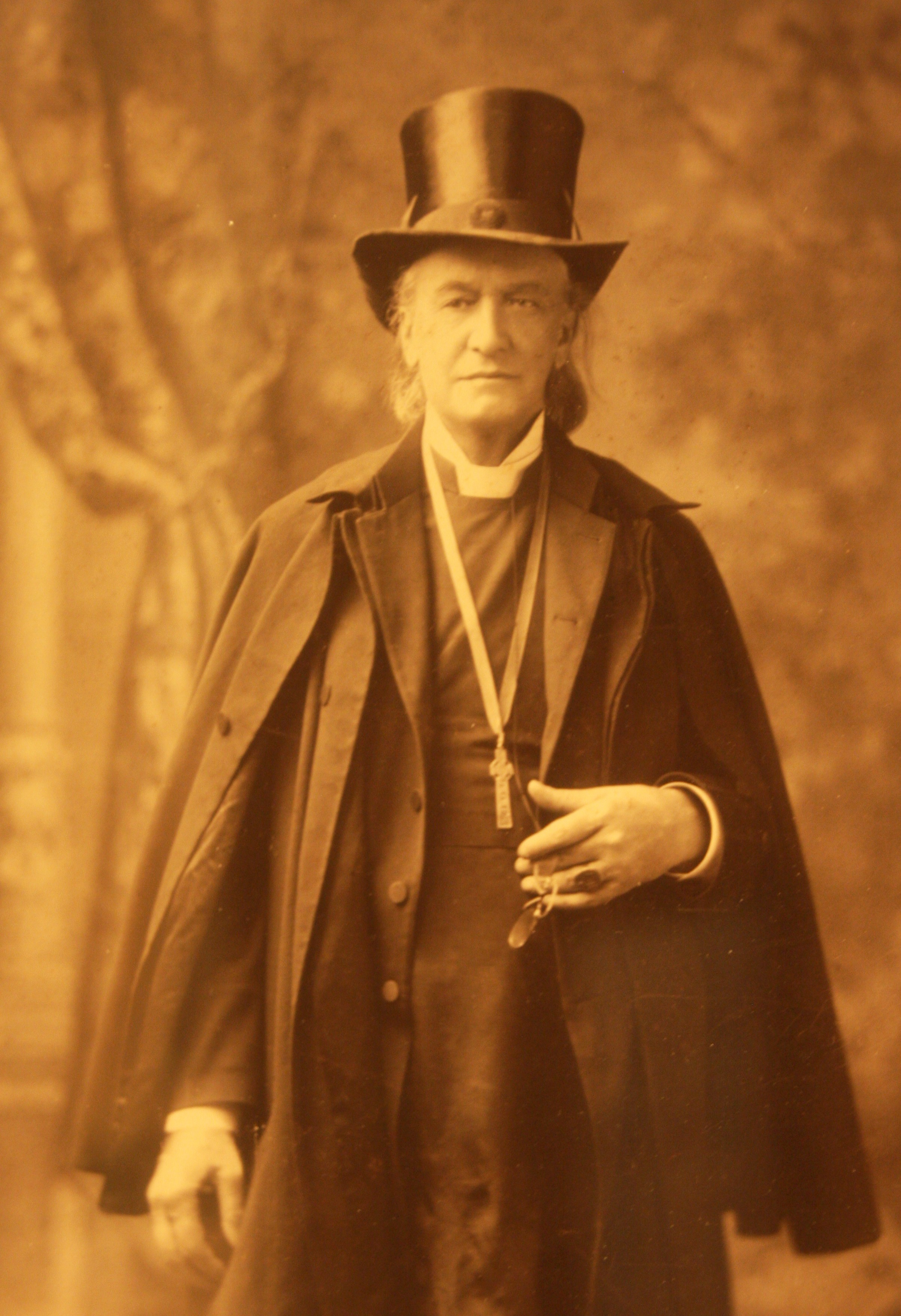 Studio portrait of Bishop Henry Benjamin Whipple, copyright 1898 by George Prince (1848-1929)